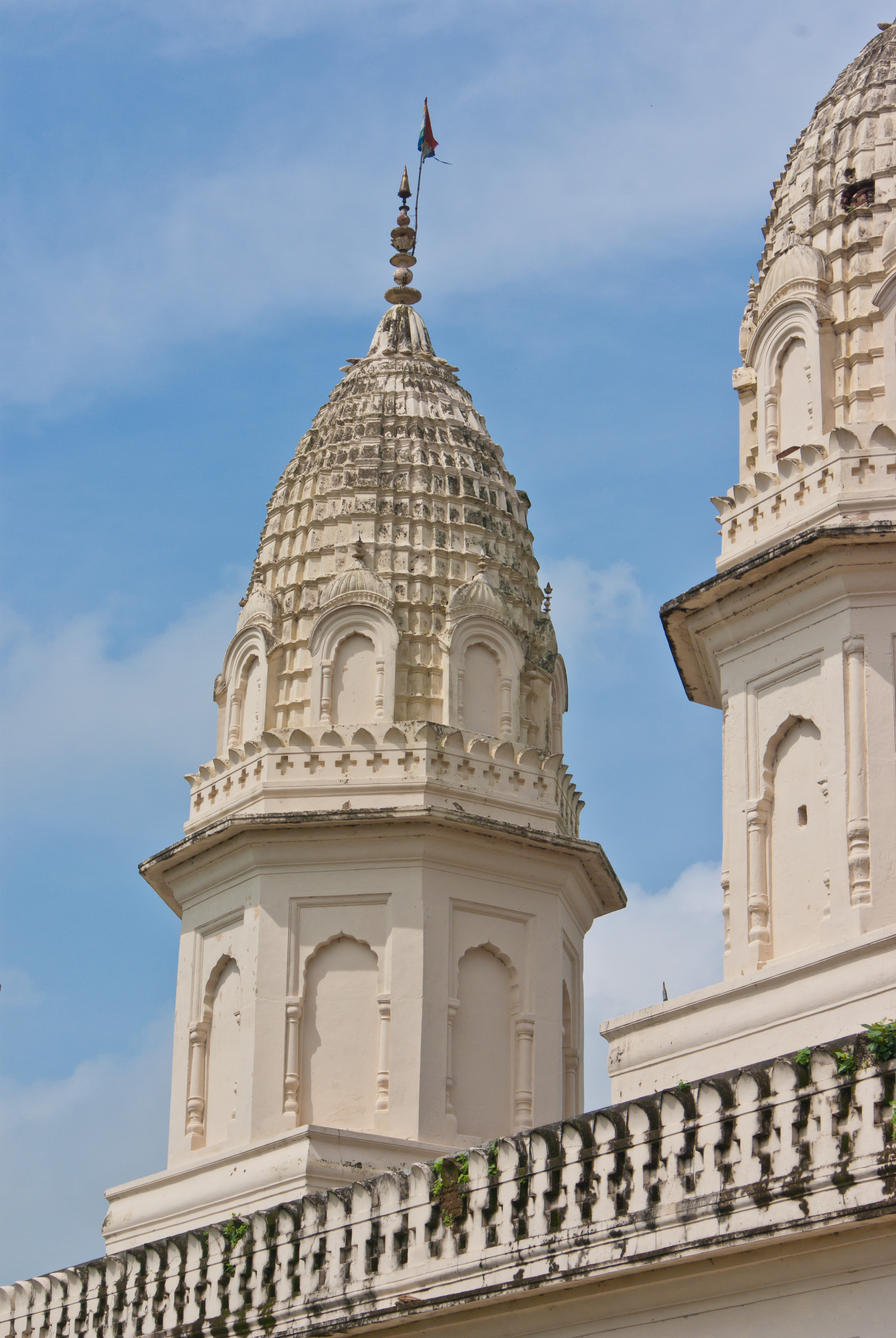 Shantinath Jain Temple Khajuraho